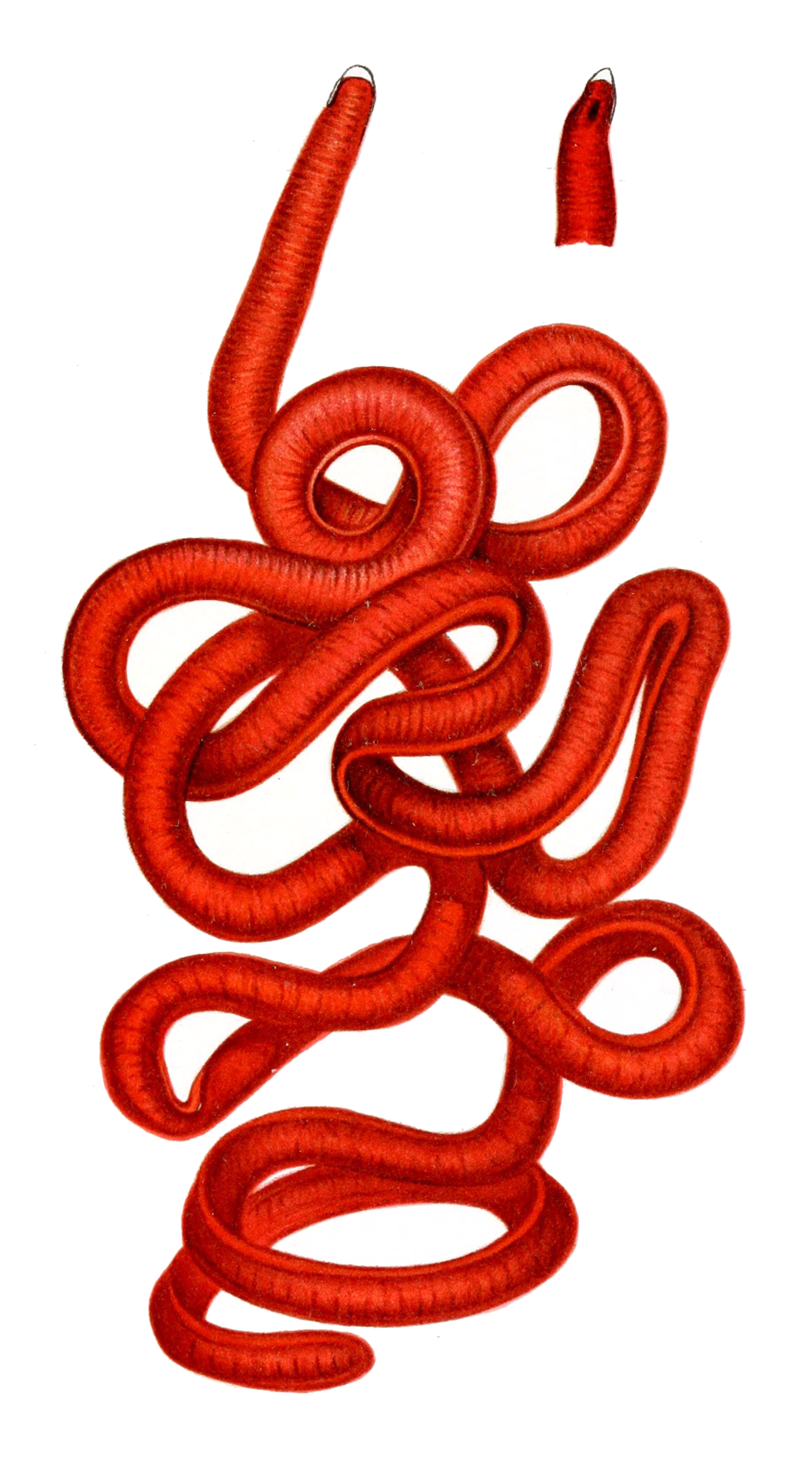 Cerebratulus montgomeryi (Nemertea: Enopla: Monostilifera: Lineidae), Dutch Harbor, Unalaska (Alaska). Entire speciemen and head from ventral view (right top).